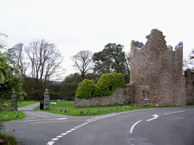 Folly gatehouse to Penrice Castle The first Penrice Castle dates from Norman times. The current castle was completed in the 1770s and the folly gatehouse added in the 1790s.